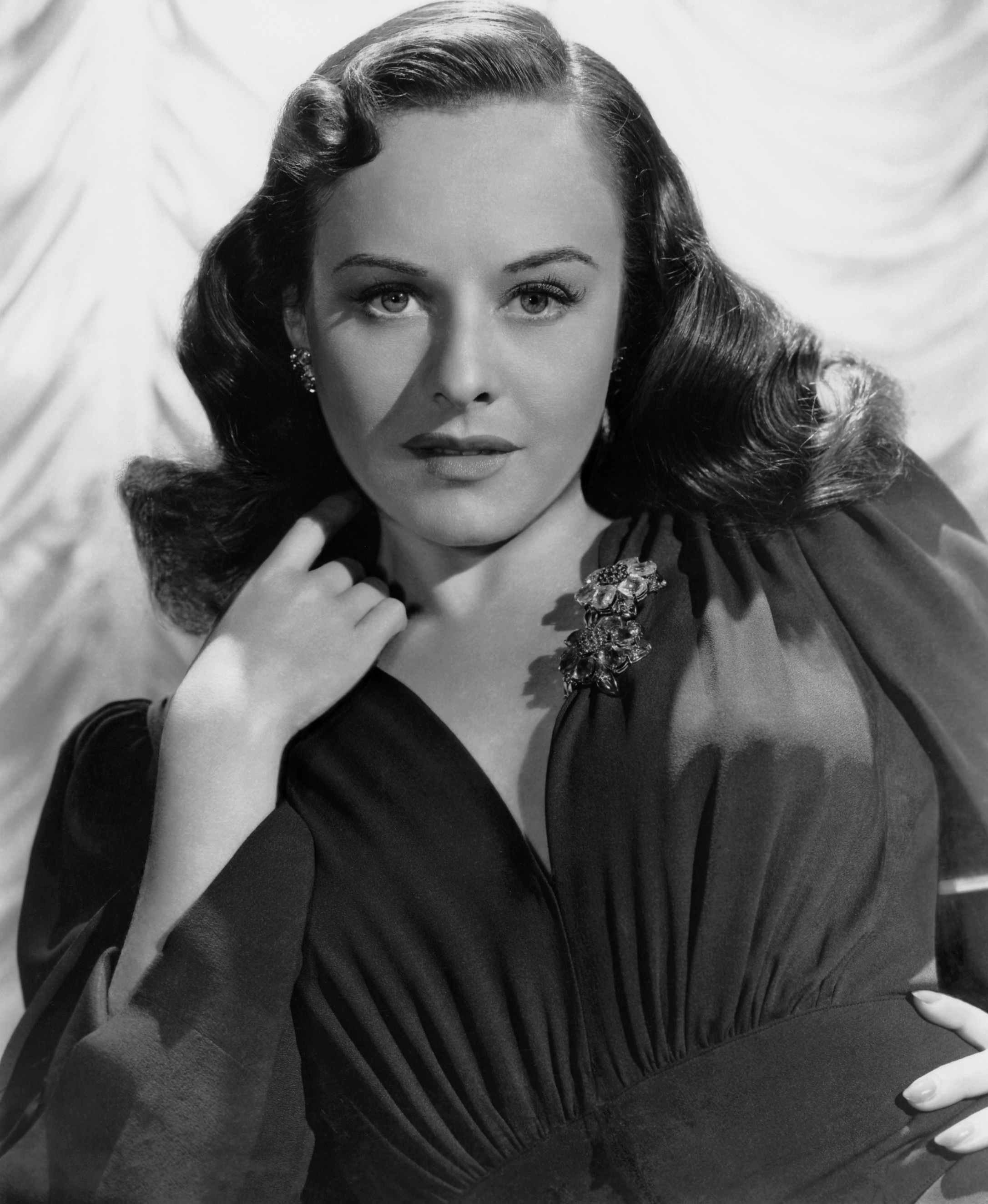 Publicity shot of Paulette Goddard, unknown date.